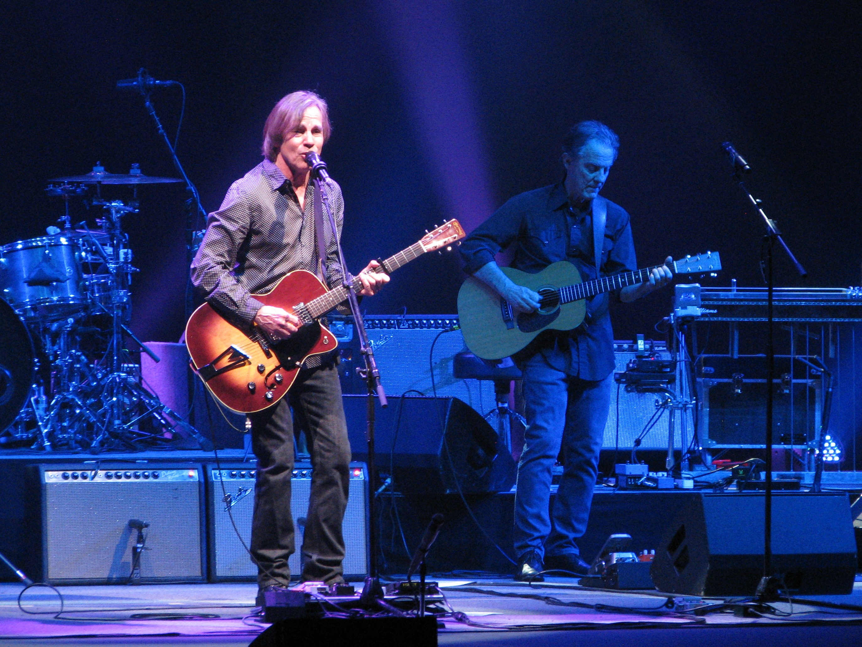 Greg Leisz playing guitar with Jackson Browne in Greenville, SC, on October 8, 2015